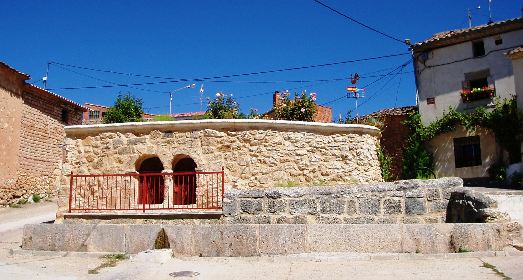 The source that named Fuentelisendo (Burgos, Spain)